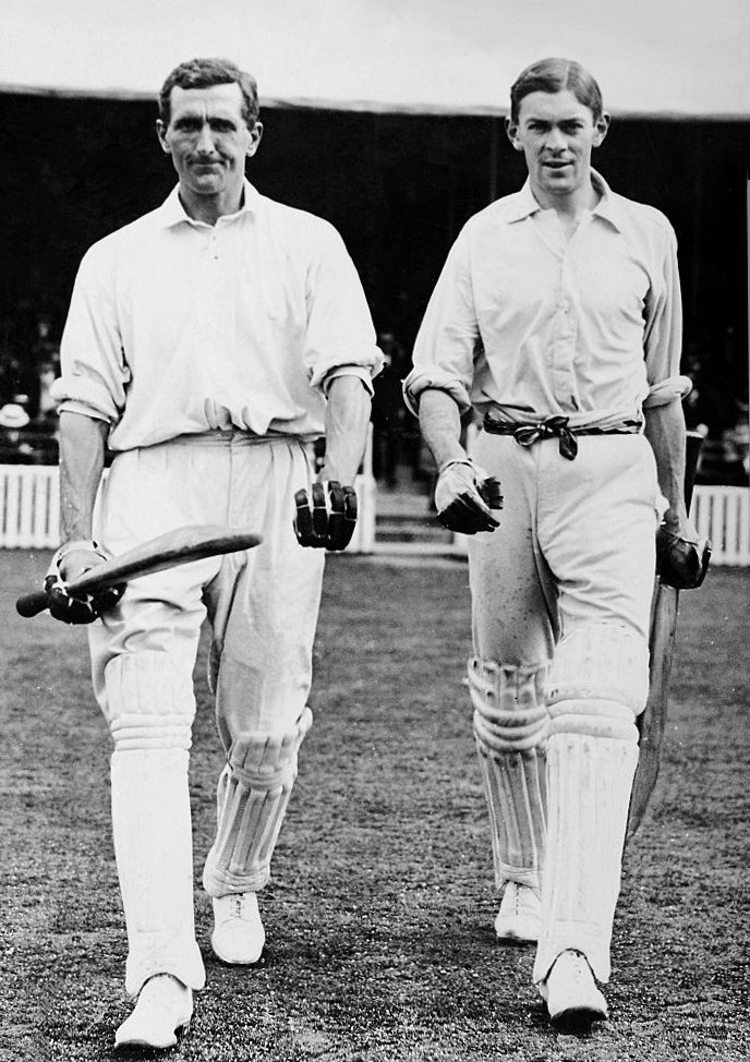 The Rest of England captain CB Fry (left) walking out to bat with AP Day, on the first day of the match celebrating the Centenary of Lord's cricket ground, played between the MCC South African team and The Rest of England on 22nd June 1914.